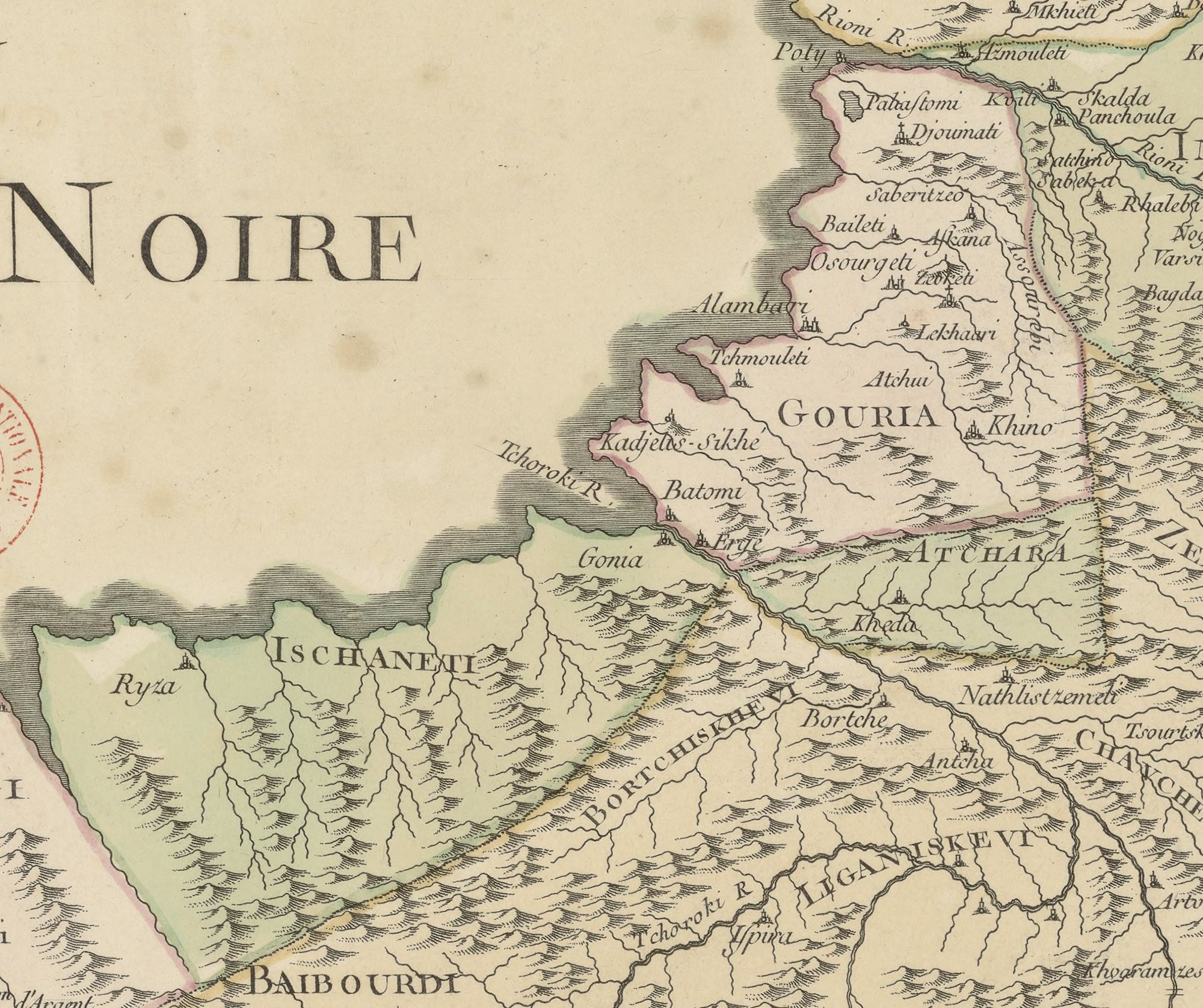 Carte générale de la Georgie et de l'Arménie / dessinée à Petersbourg en 1738 d'après les cartes, mémoires, mesures et observations des gens du pays ; traduit du géorgien en françois par le secrétaire du roi de Georgie ; publiée en 1766 par M. Joseph Nicolas Del'Isle.